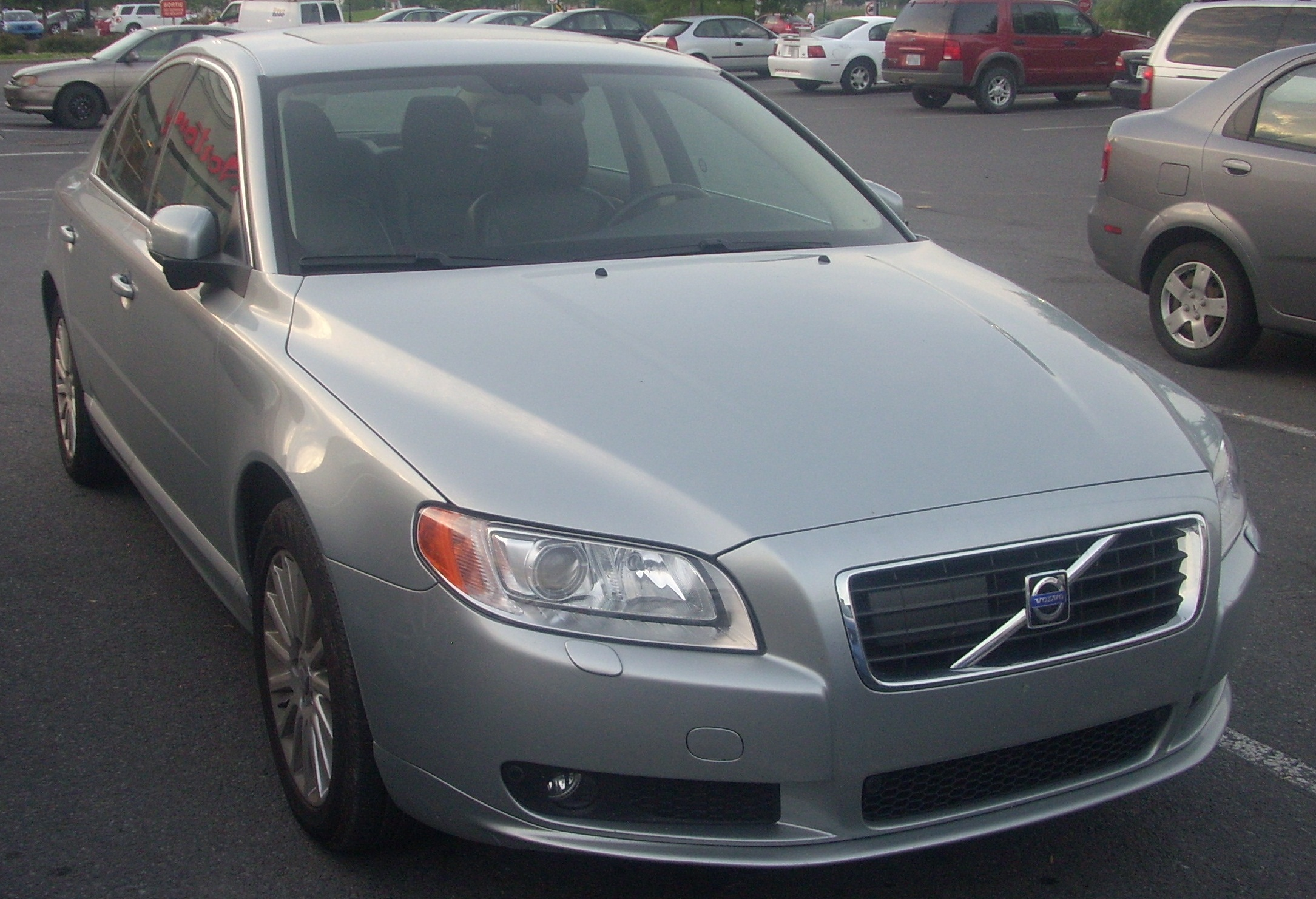 Volvo S80 photographed in Kirkland, Quebec, Canada.